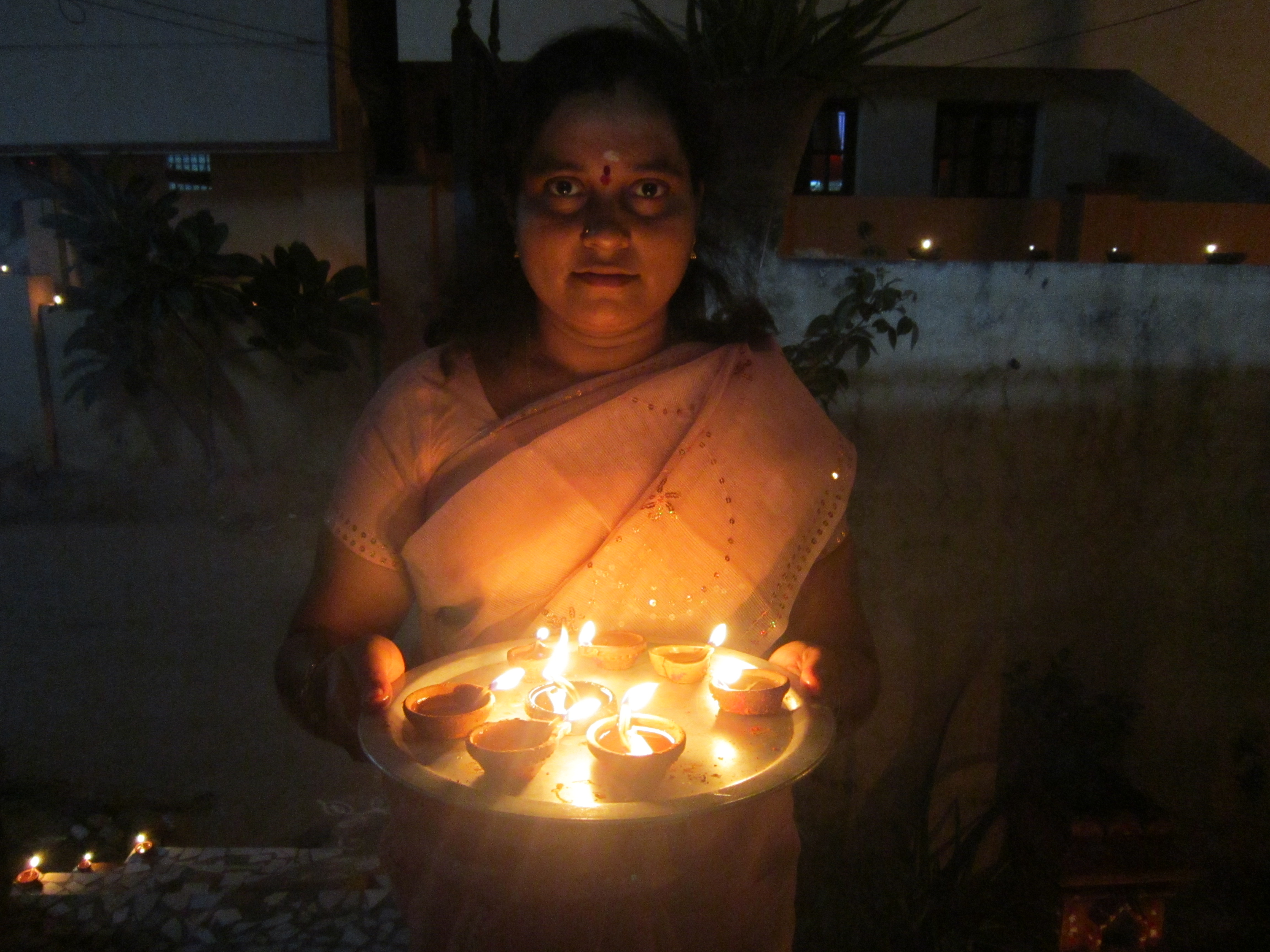 lighting pramidalu on the occasion of deepavali